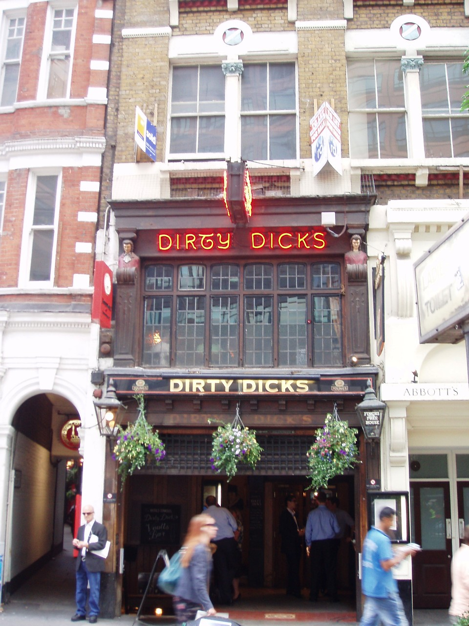 A Young's pub on Bishopsgate with a bit of history. The former landlord wasn't much for cleaning and the place used to be famous for the junk strewn about (though it's cleaner now). Address: 202 Bishopsgate. Former Name(s): The Old Port Wine House; The Old Jerusalem (on the same site). Owner: Young's (website). Links: Randomness Guide to London Fancyapint Beer in the Evening Dead Pubs (history)